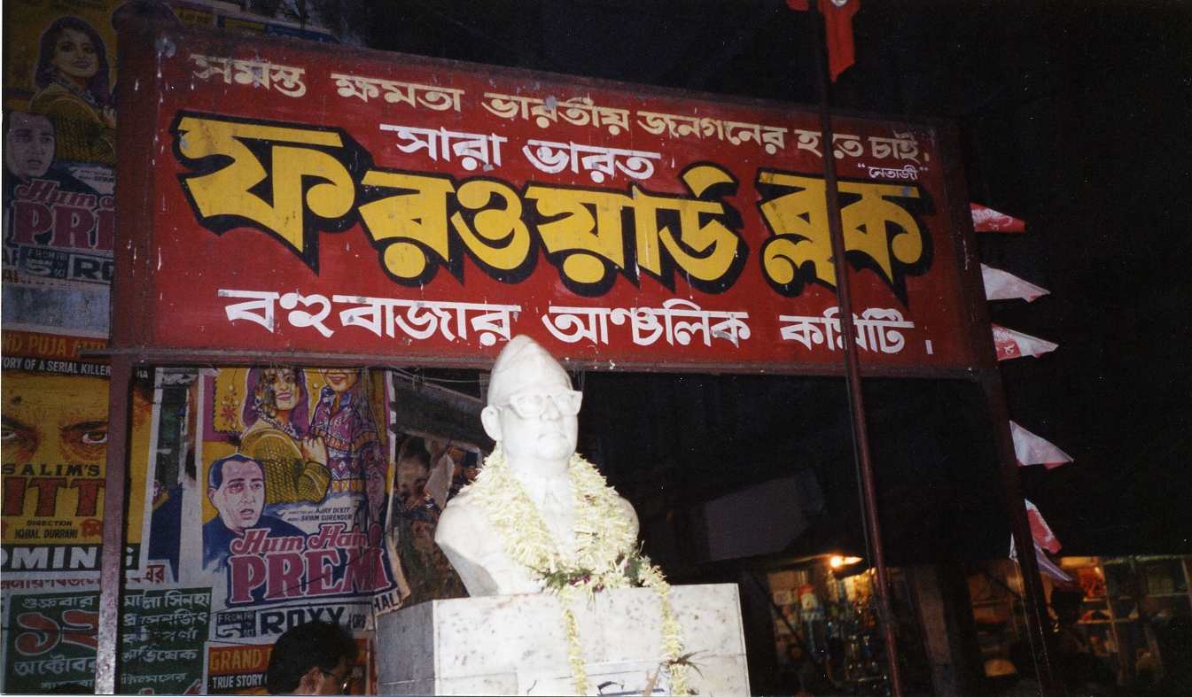 Photo: Soman